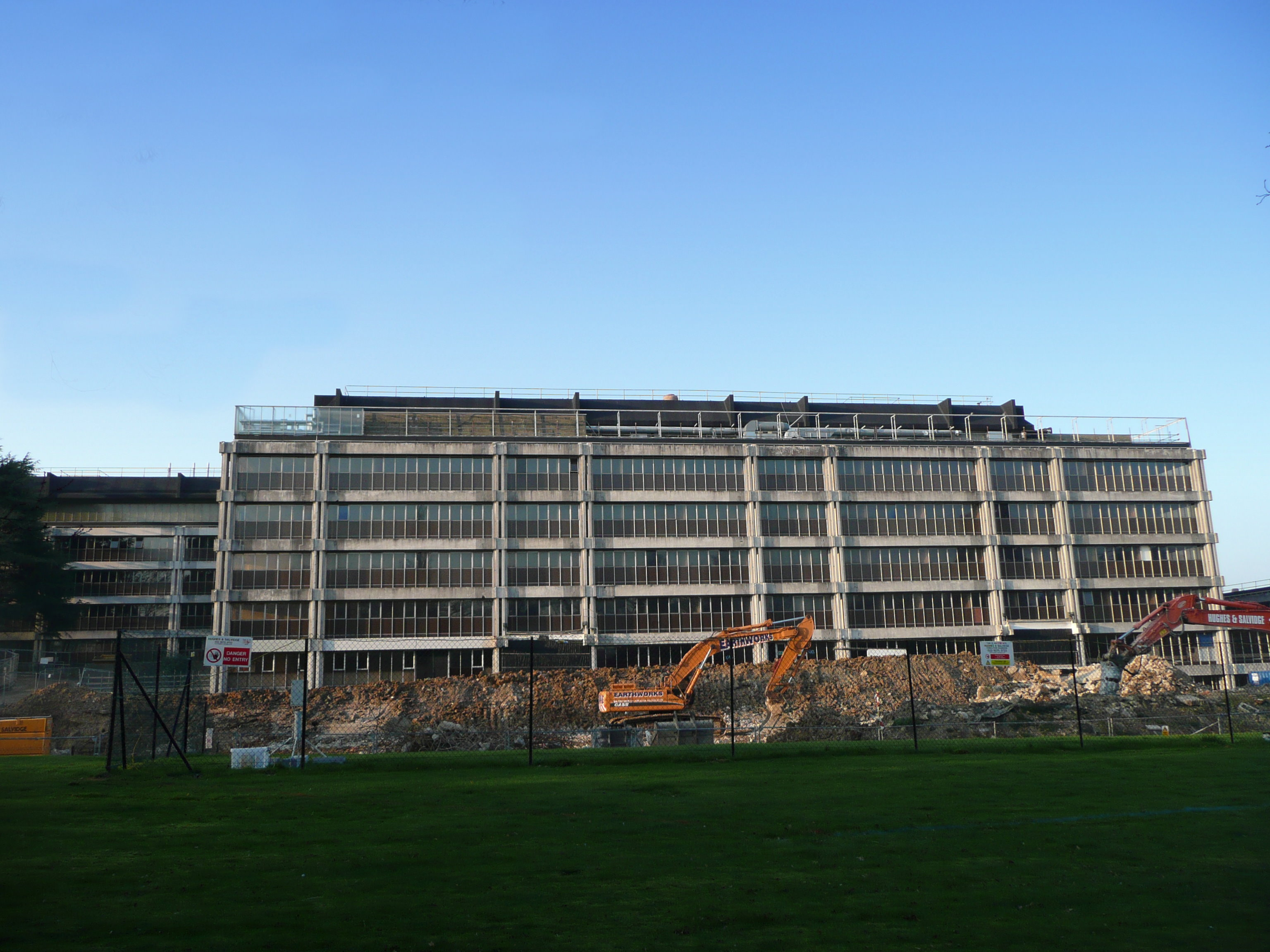 Boldrewood Campus Main Building of the University of Southampton as viewed from Burgess Road in Southampton, Hampshire, England. The building was designed by Basil Spence, and at the time of this photograph was being decommissioned while awaiting demolition.